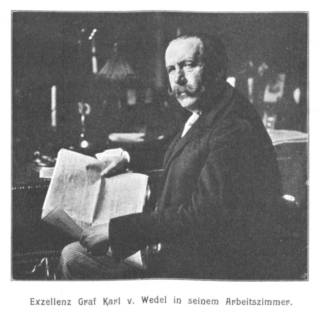 Portrait of Karl von Wedel (1842-1919), German ambassador in Vienna, in his office.